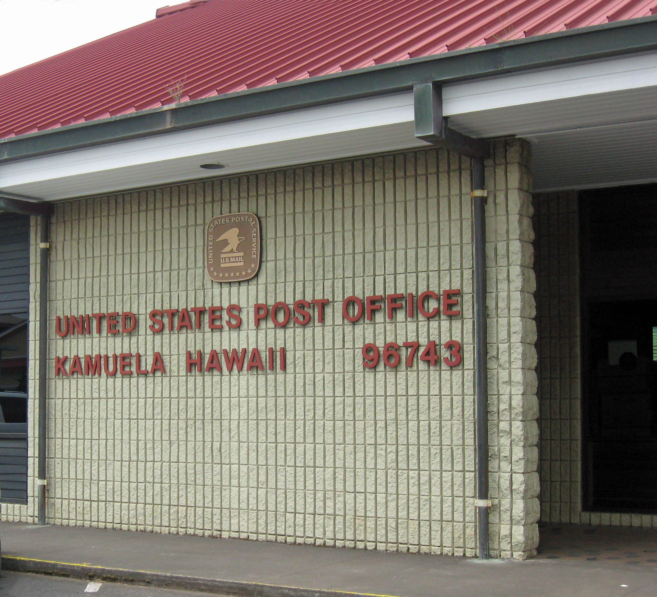 The post office of Waimea, Hawaii County, Hawaii is called "Kamuela" to avoid confusion with other towns of the same name in the state.